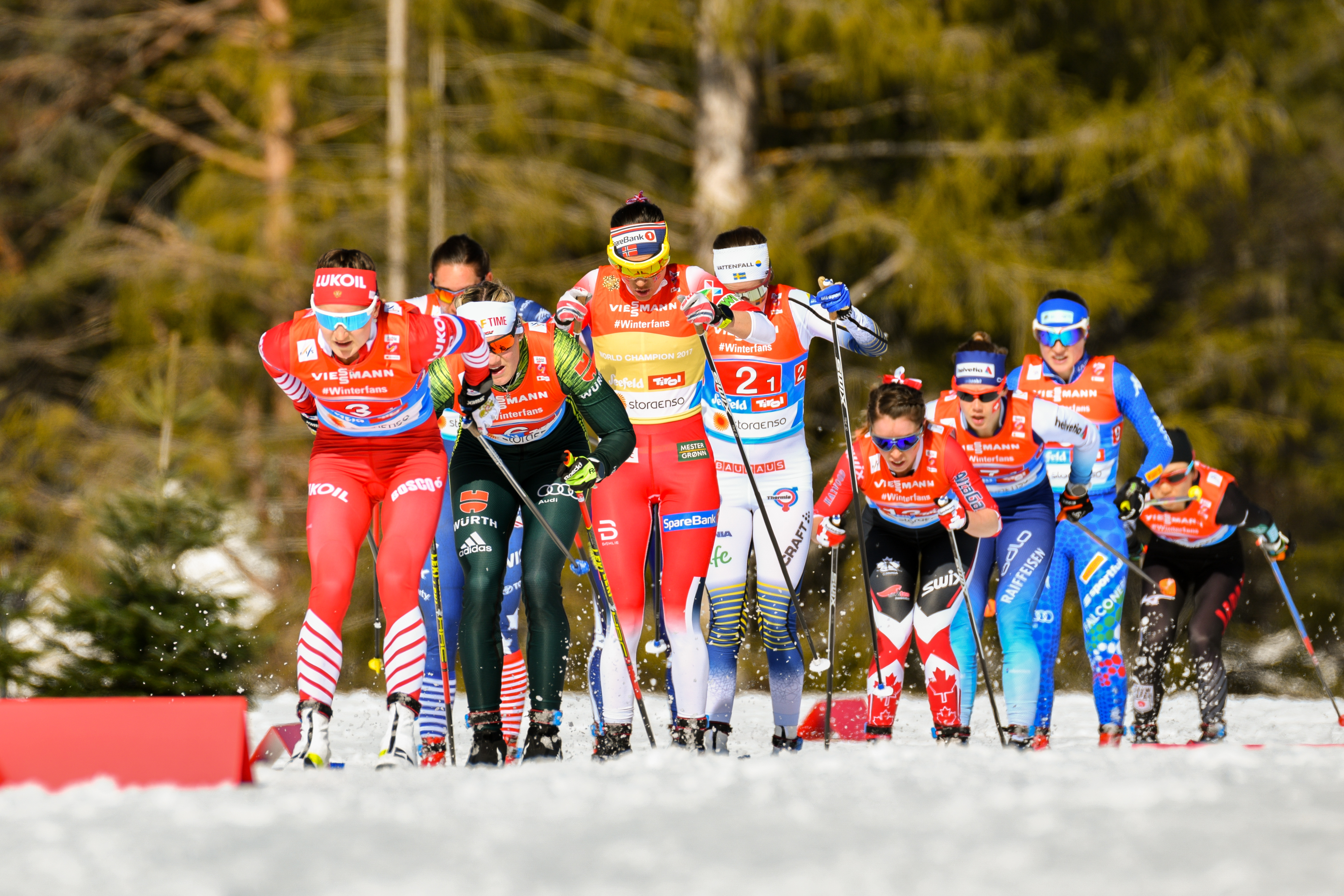 FIS Nordic World Ski Championships Seefeld 2019 - Ladies 4x5km Relay Classic/Free. Picture shows Yulia Belorukova (RUS), Victoria Carl (GER), Heidi Weng (NOR), Ebba Andersson (SWE), Katherine Stewart-Jones (CAN), Laurien van der Graaf (SUI), Anna Comarella (ITA).